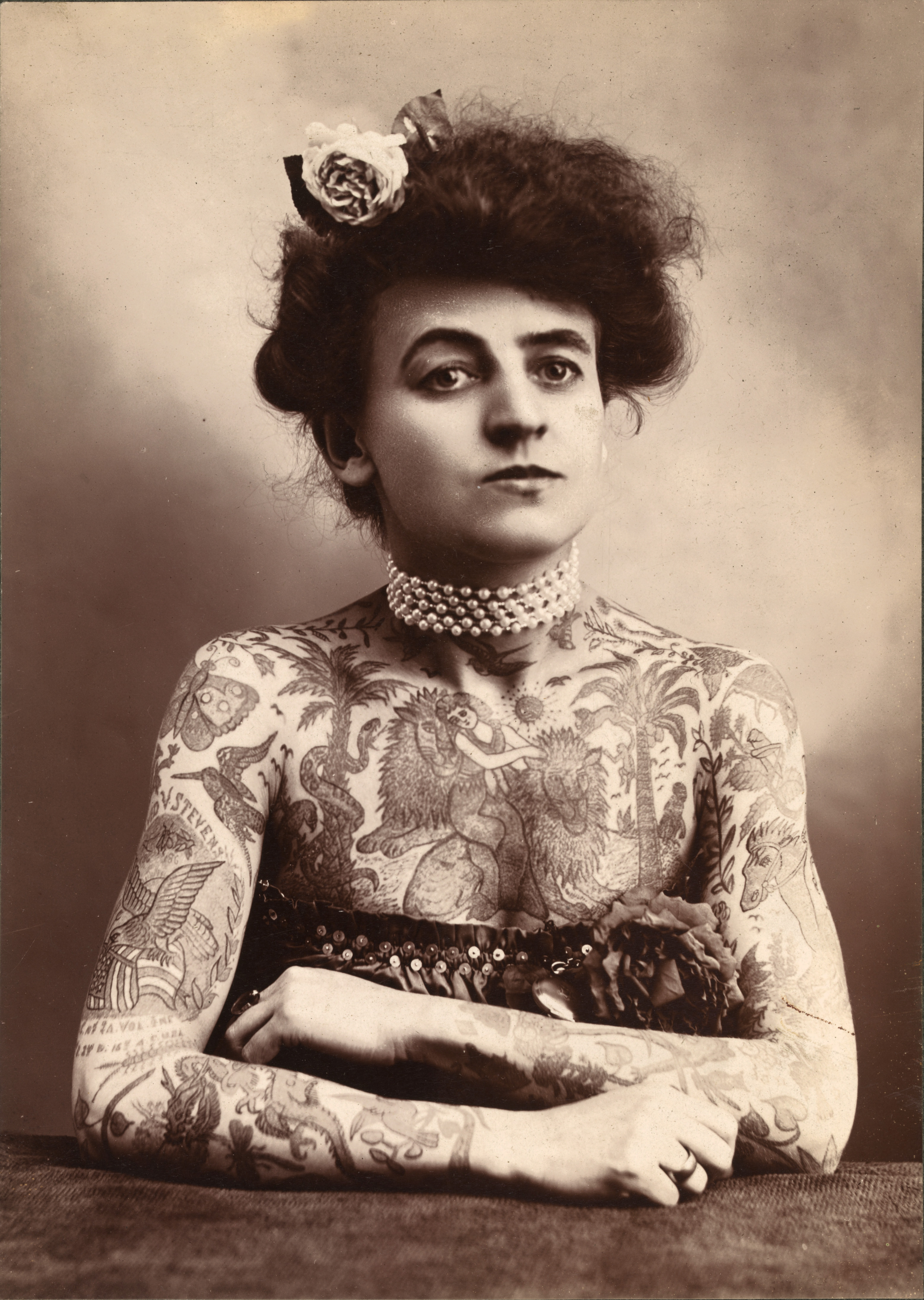 Maud Stevens Wagner, tattoo artist, circa 1907. Photograph shows a half-length portrait of a woman with tatooes or body paint covering her arms and chest.